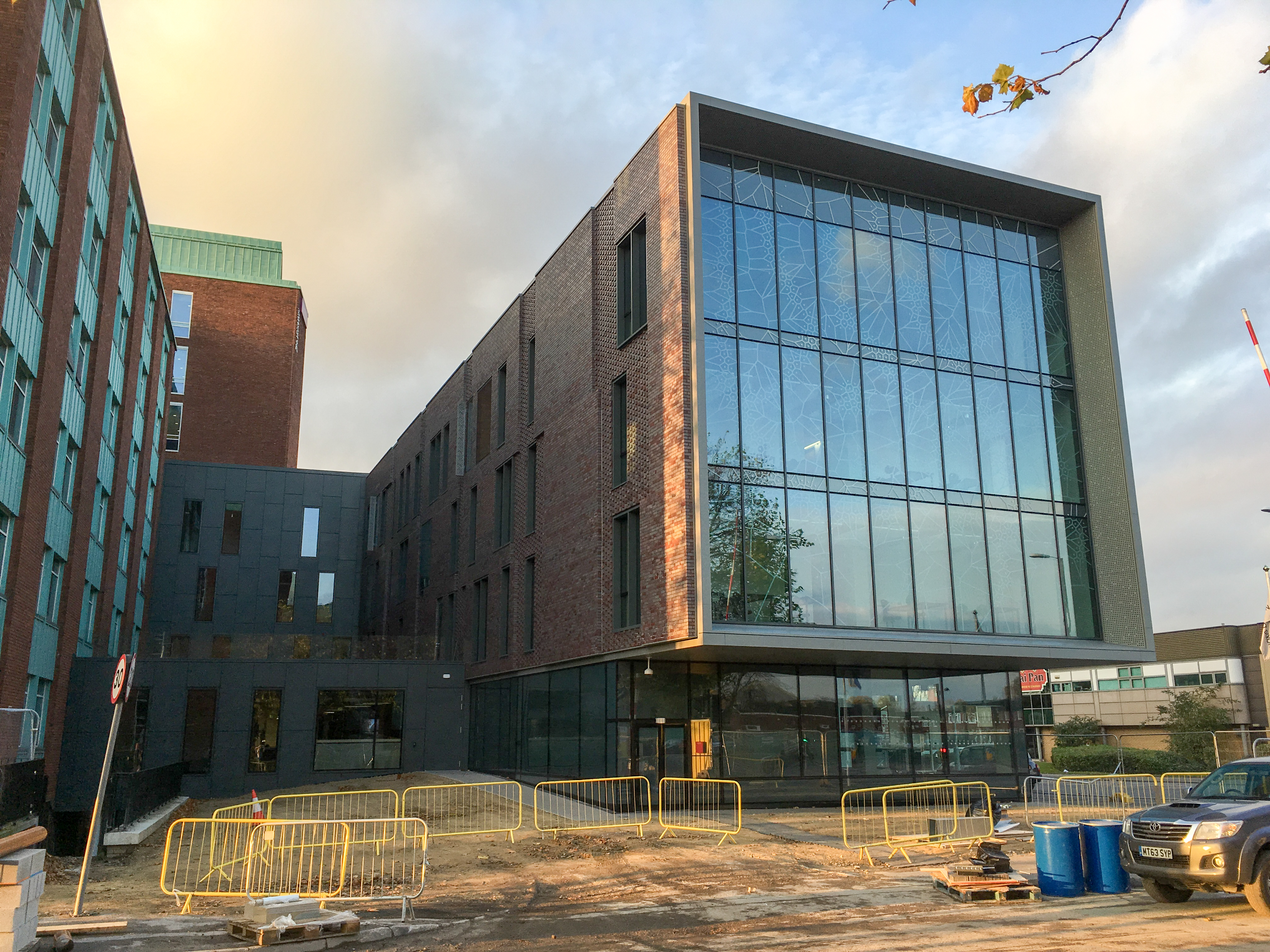 The Schuster Annex, University of Manchester, UK